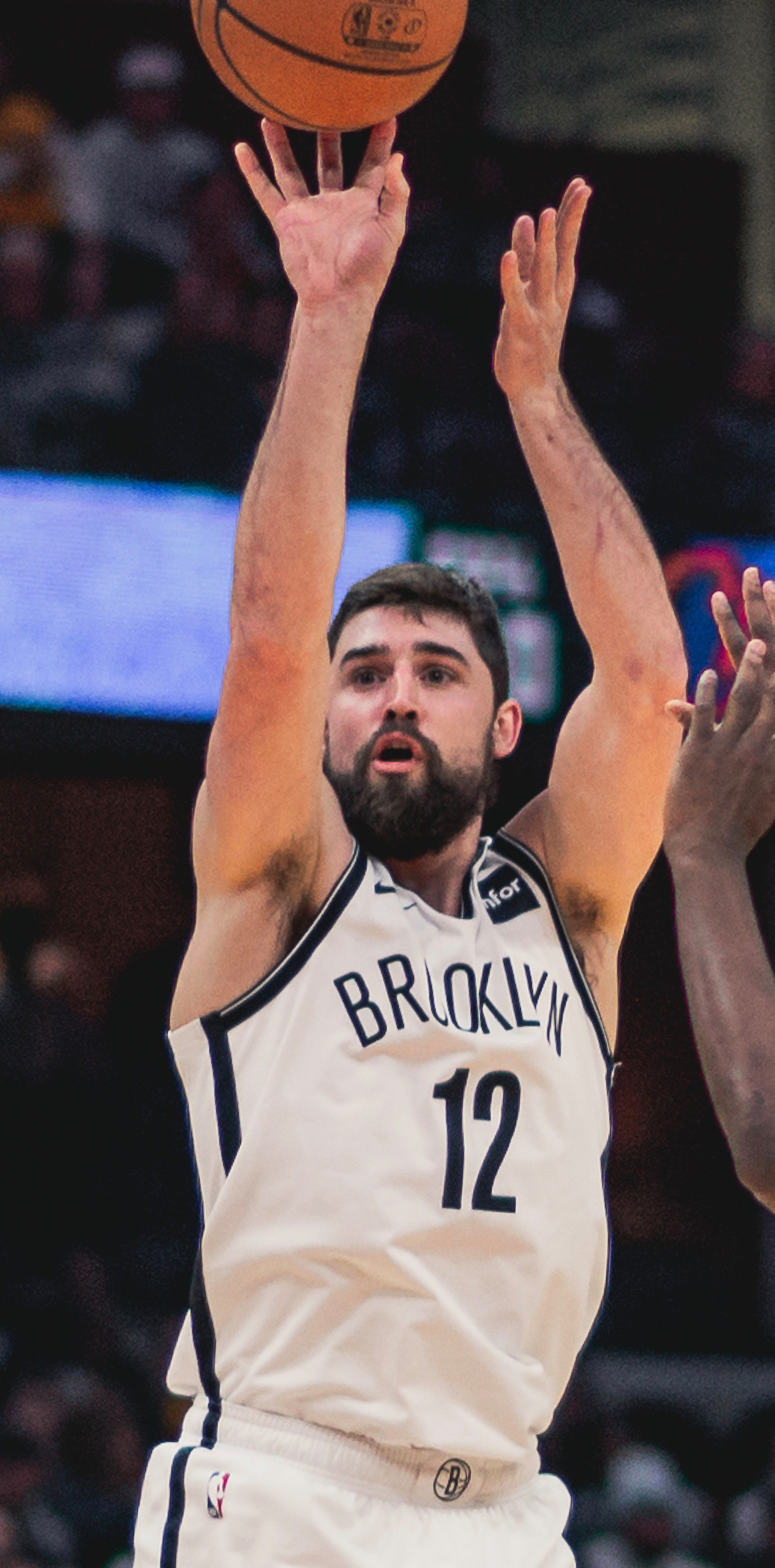 Joe Harris in February 2019 as a member of the Brooklyn Nets